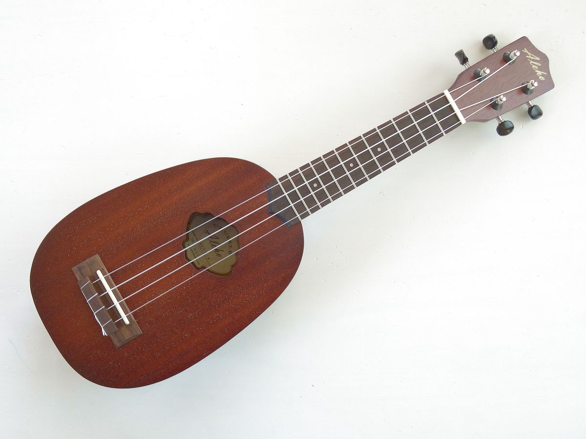 Leho Aleho Pineapple Sopran Ukulele ALUP-M, top view.